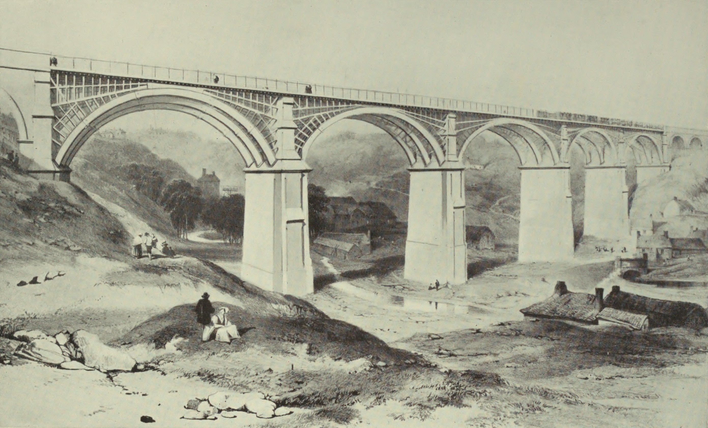 Ouseburn Bridge, near Newcastle, built by the Newcastle and North Shields Railway in the 1830s using laminated timber arches on masonry piers, similar to the Wiebeking system used in Paris.